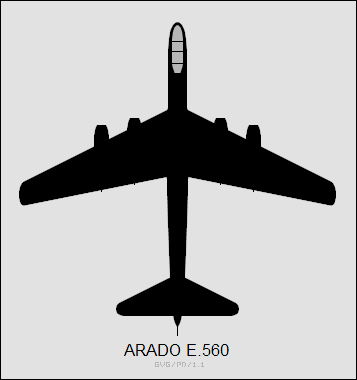 Plan-view silhouette of the Arado E.560/11 project